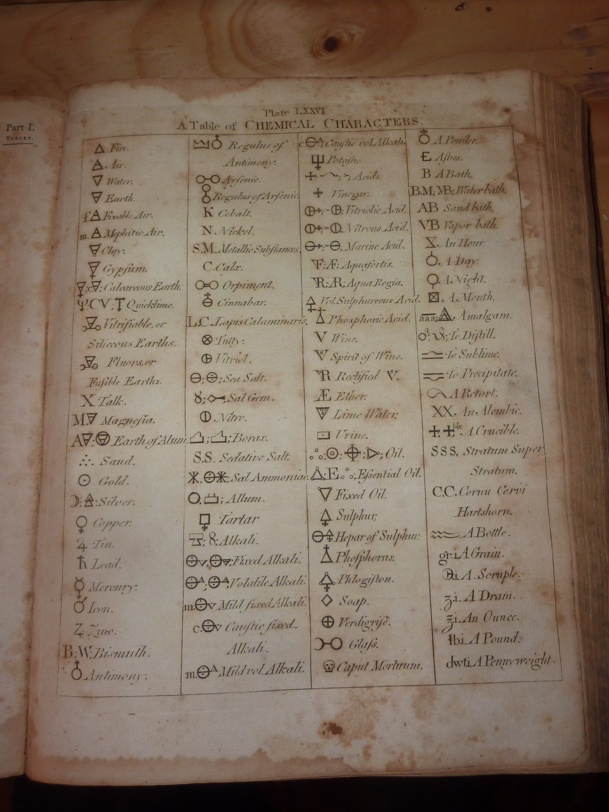 plate 76 of 2nd edition Britannica, dated 1778